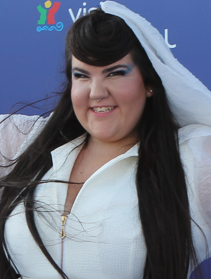 Netta Barzilai at the Eurovision Song Contest 2018 Blue Carpet event, 6 May 2018.